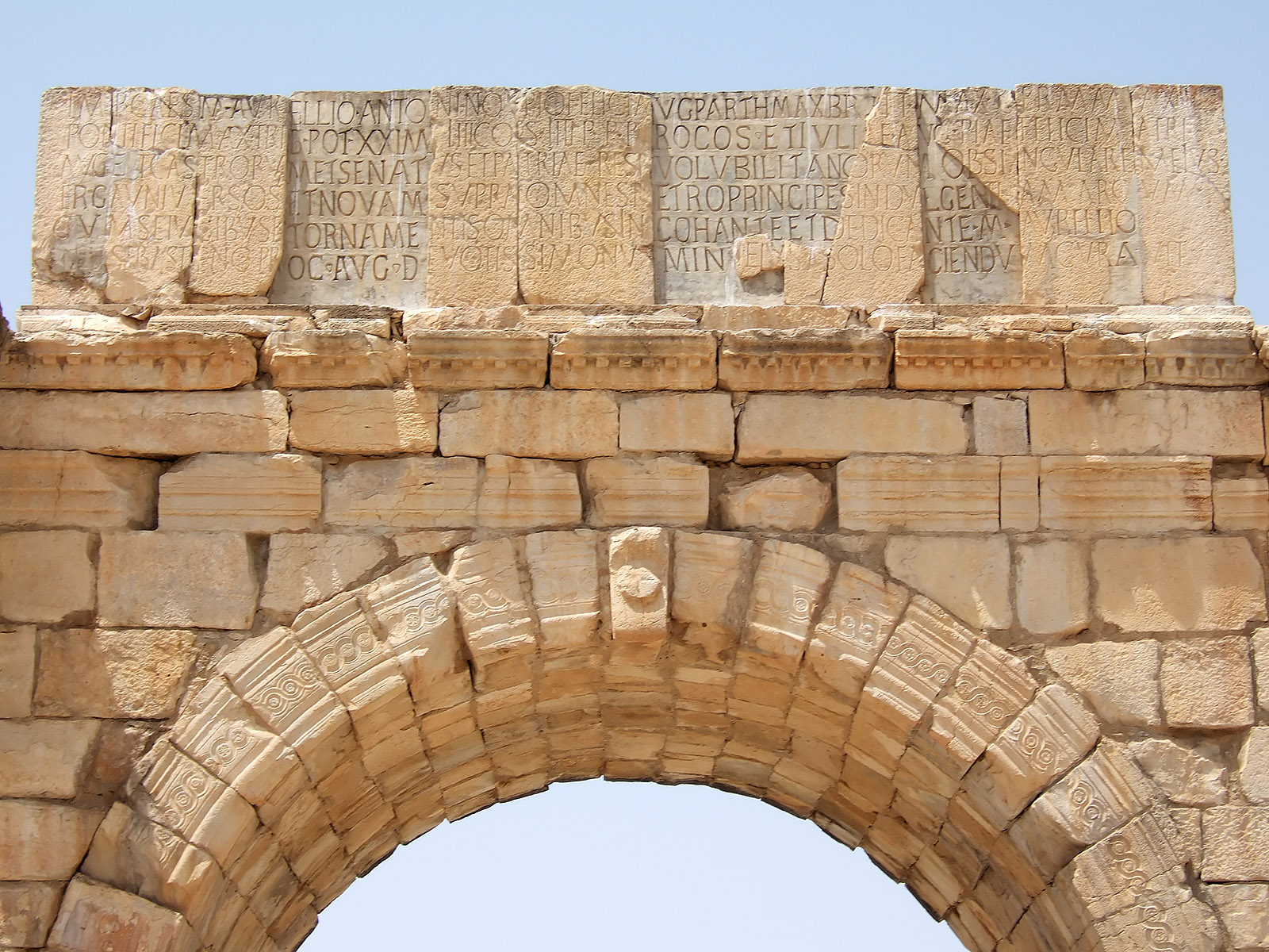 Triumphal Arch at Volubilis in Morocco. Fuji F11 Camera at ISO 80.